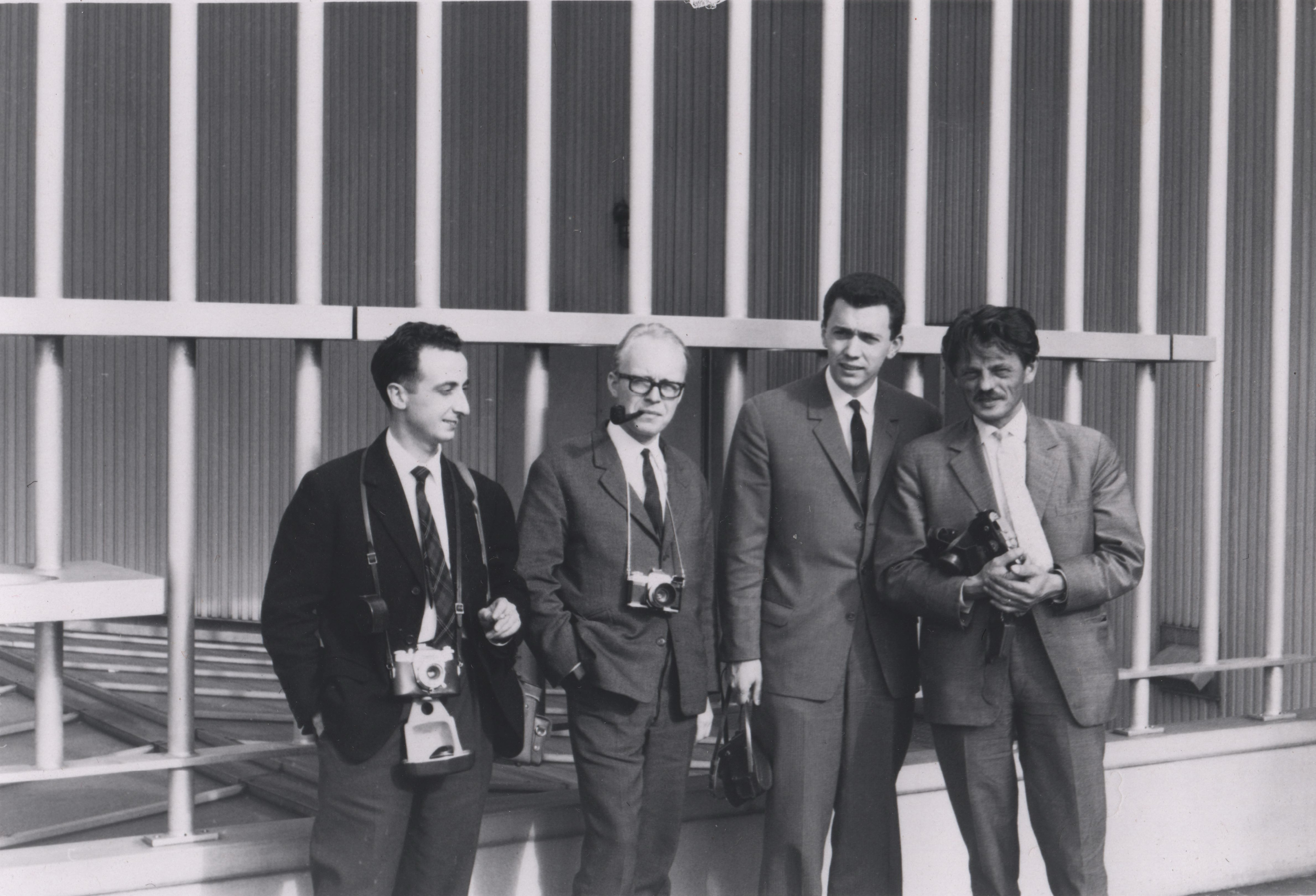 Ford Scholarship recipients from 1963. year (from left to right)- Julio Schmid from Spain, Ernst Beranek from Austria, Gojko Varda from Serbia and Niko Kralj from Slovenia, USA, 1963